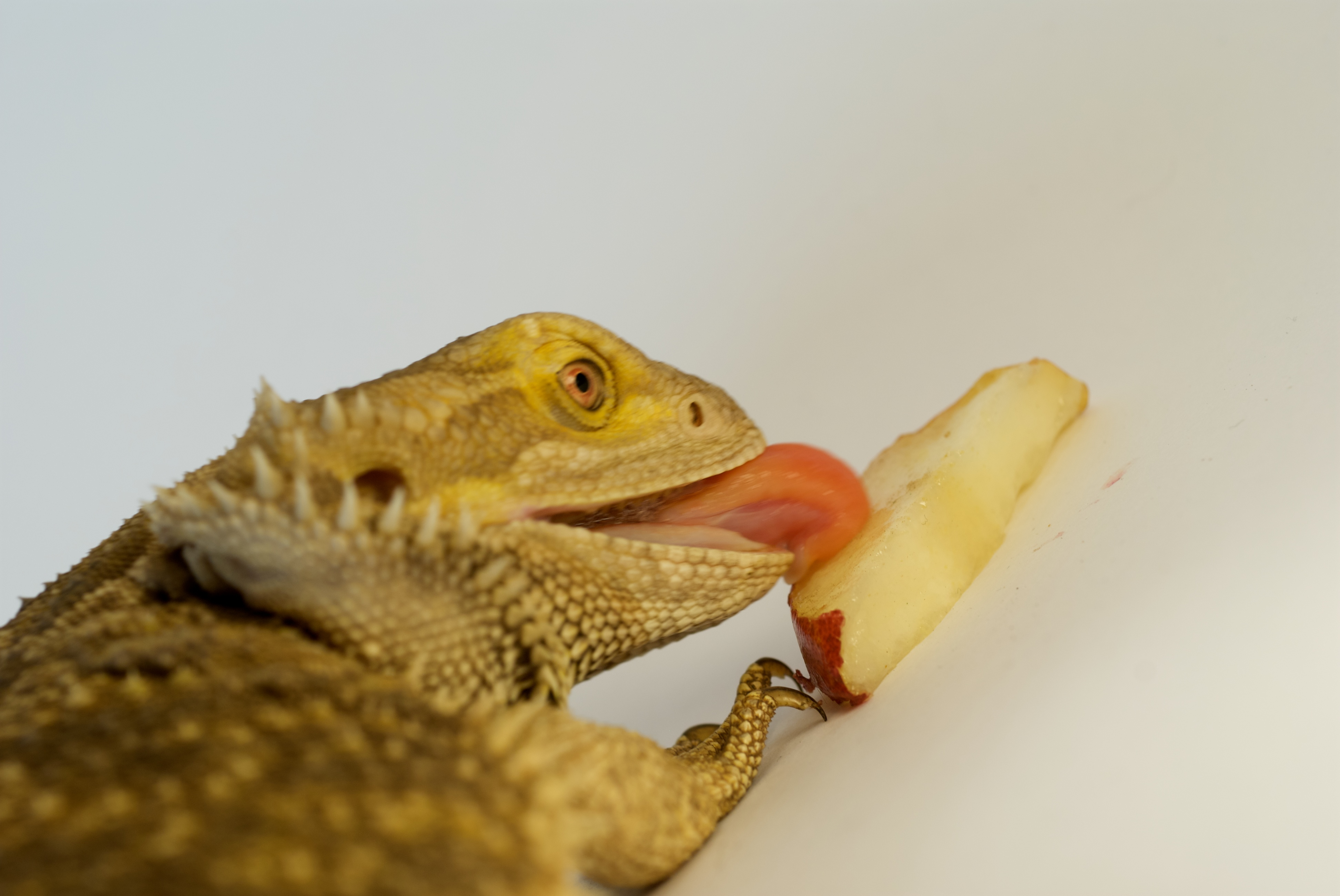 Bearded Dragon eating a pear slice